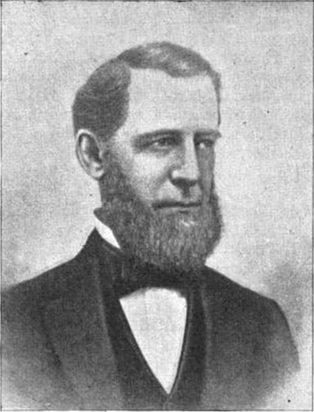 Michigan Justice George Martin, The Green Bag, Vol. 2, p. 381